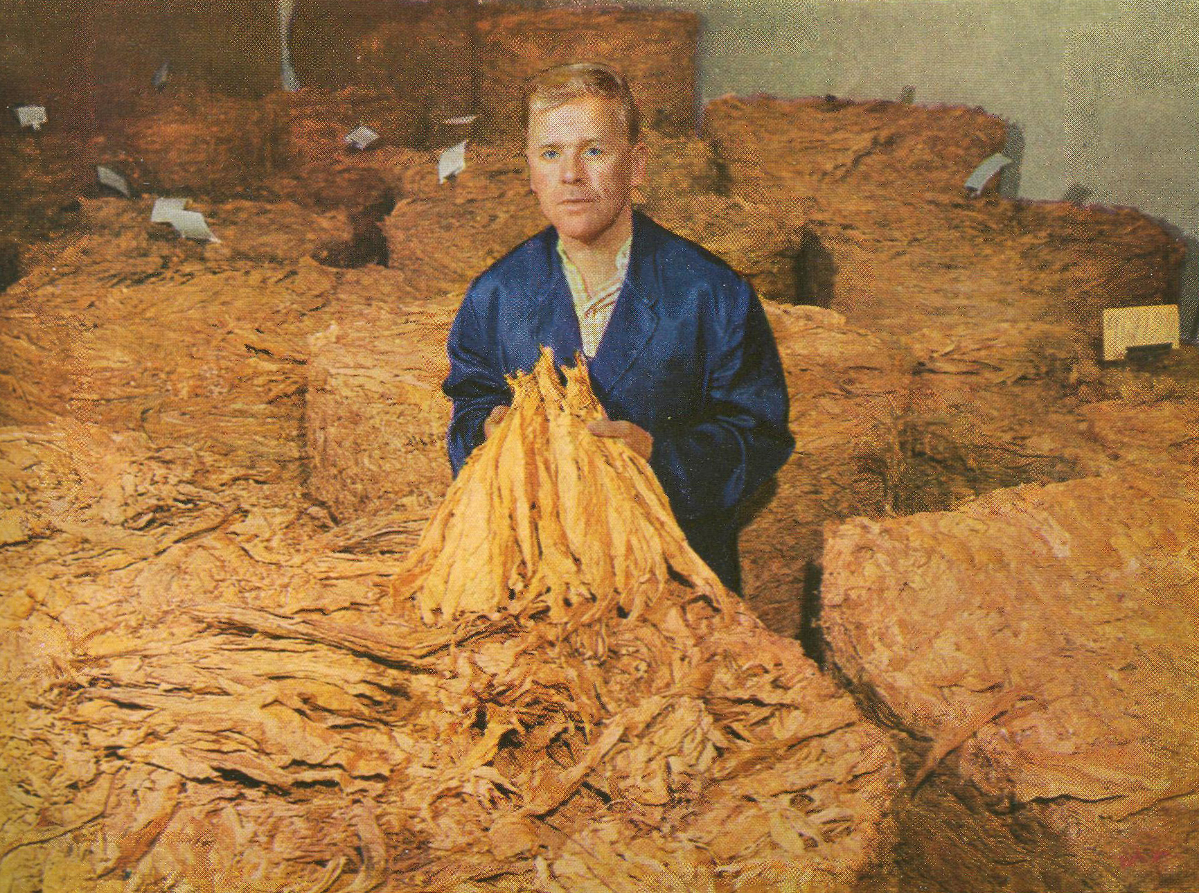 Raw tobacco is made ready for the first moistening.